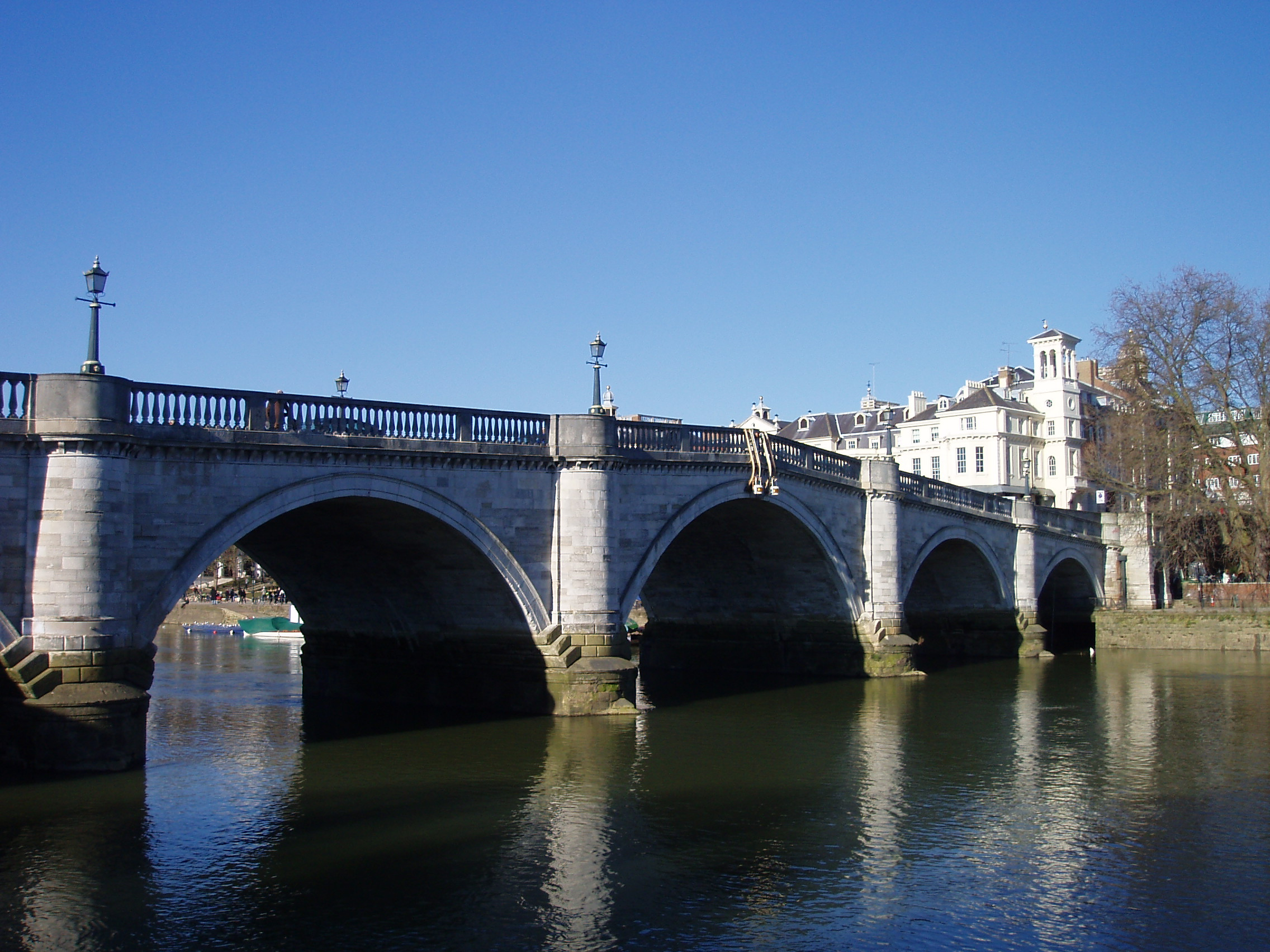 Richmond Bridge, over the River Thames at Richmond, London. 07/03/2010.